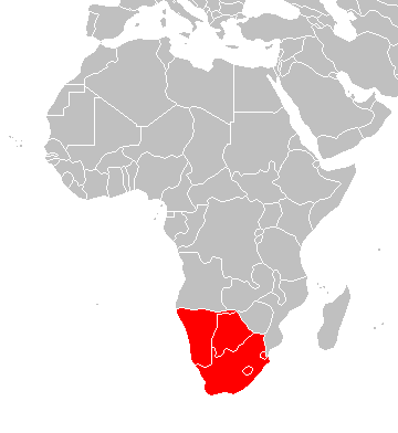 The map of South Africa region